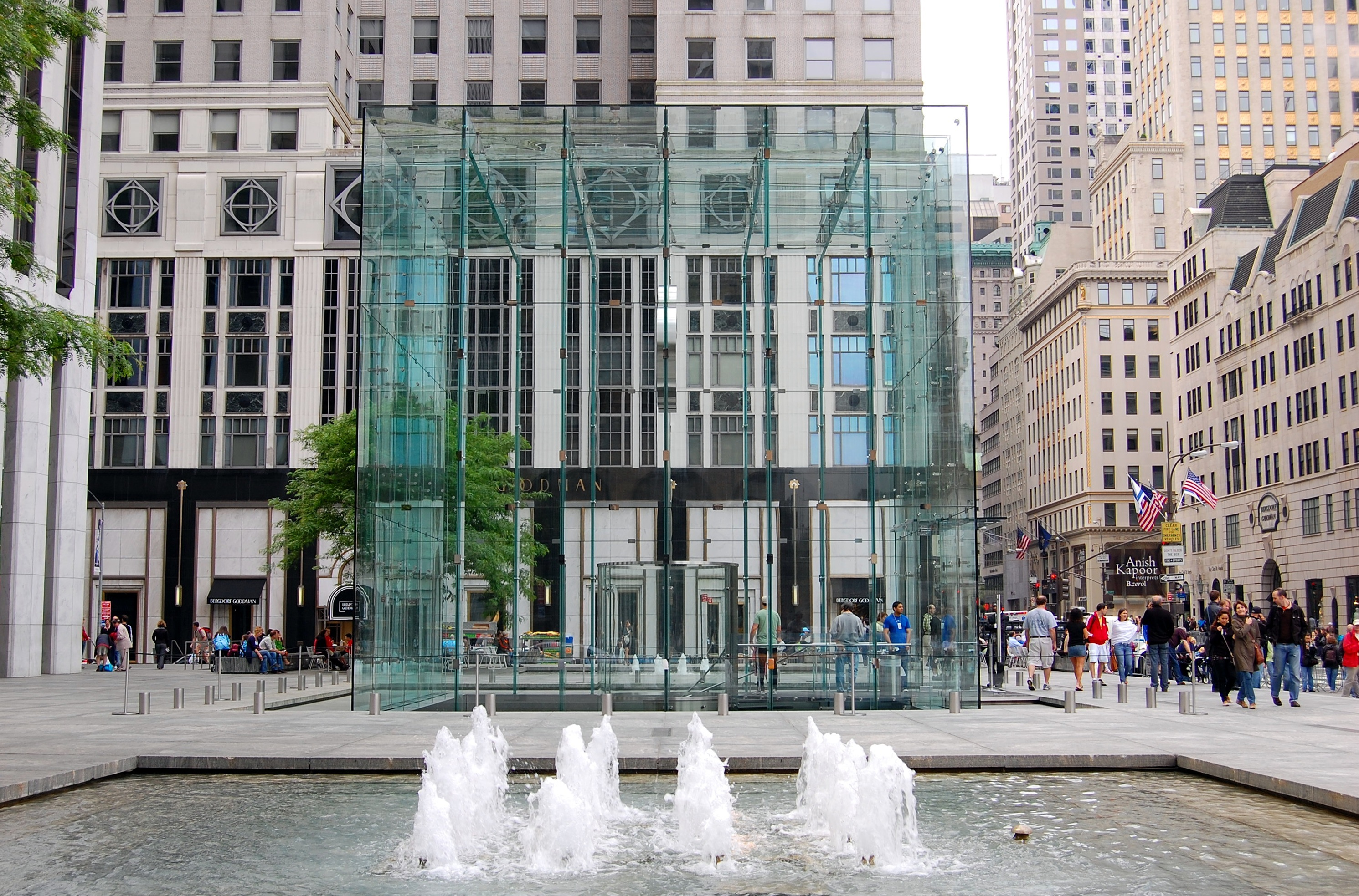 The Apple Store at 59th Street and Fifth Avenue, New York City. The store is actually underground, accessed through stairs or an elevator in the glass box.